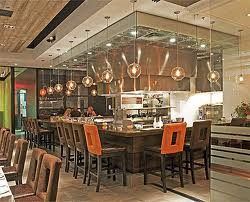 Interior of Christopher's & Crush Lounge